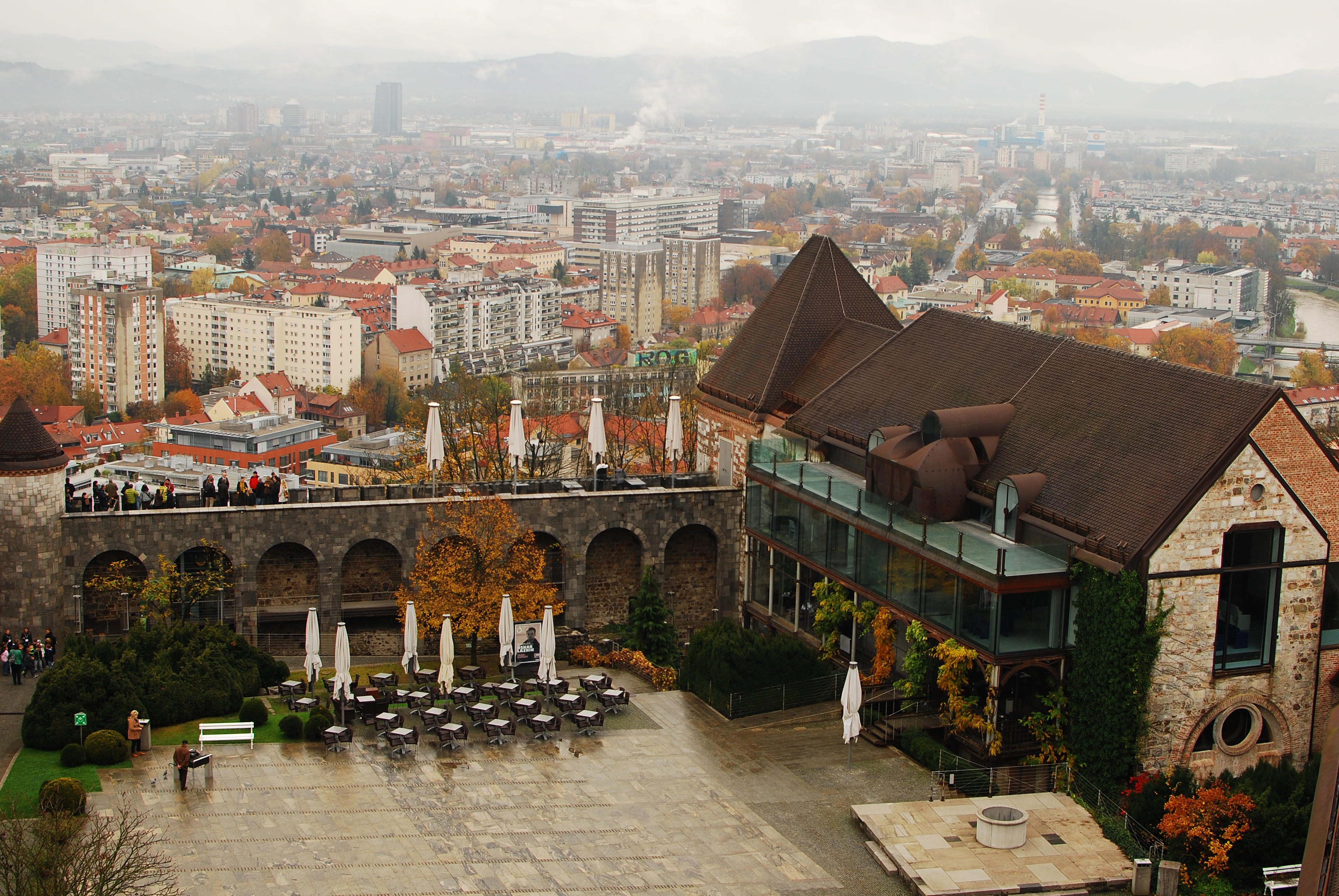 Ljubljana is the capital and largest city of Slovenia. Located in the middle of a trade route between the northern Adriatic Sea and the Danube region, it has been a historical capital of the Carniola, a Slovene-inhabited part of Austria-Hungary and is now the cultural, educational, economic, political and administrative center of Slovenia, independent since 1991.